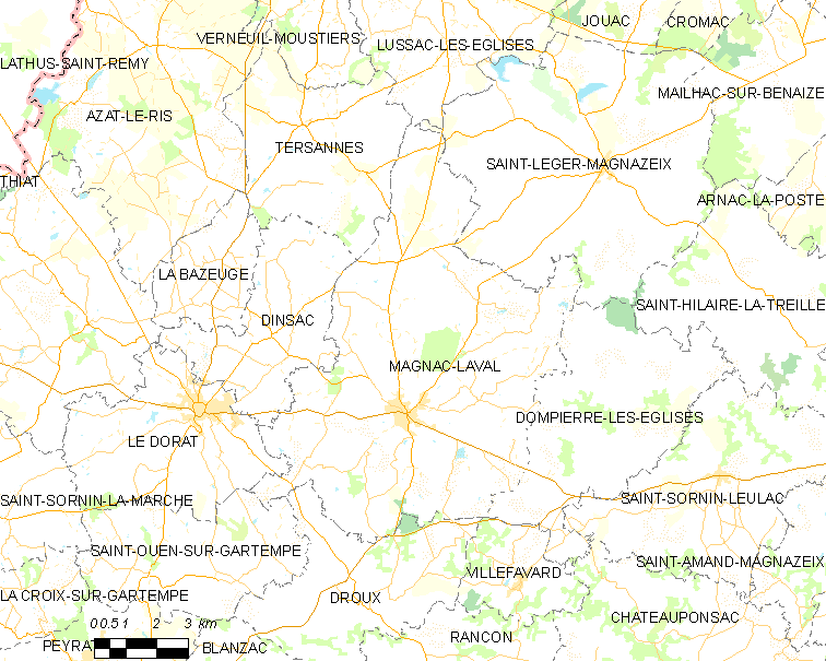 Map of French municipality Magnac-Laval